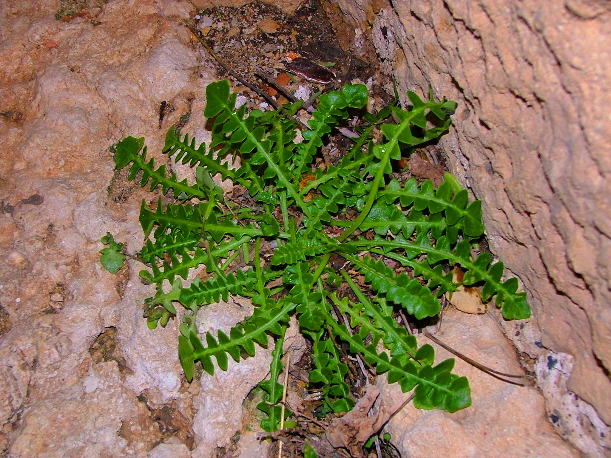 Hyoseris frutescens in winter, in a damp sheltered place